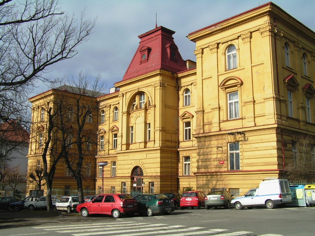 Convict in Příbram, former site of Mining University.